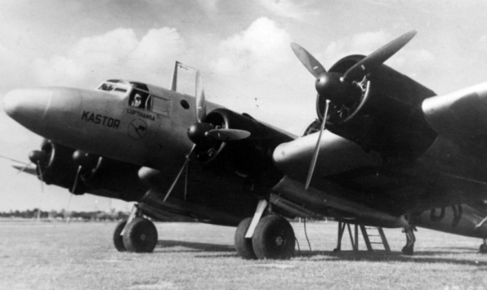 The German Lufthansa Blohm & Voss BV 142 Kastor (c/n 219, D-ABUV) in 1939.